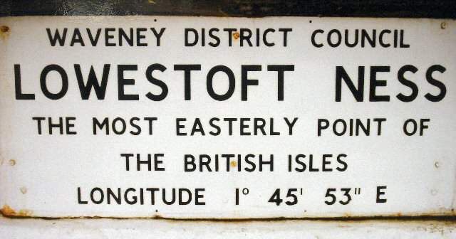 Local Council Plaque marking the Easterly Extremity of the British Isles. Mounted on the sea wall adjacent to the Euroscope.